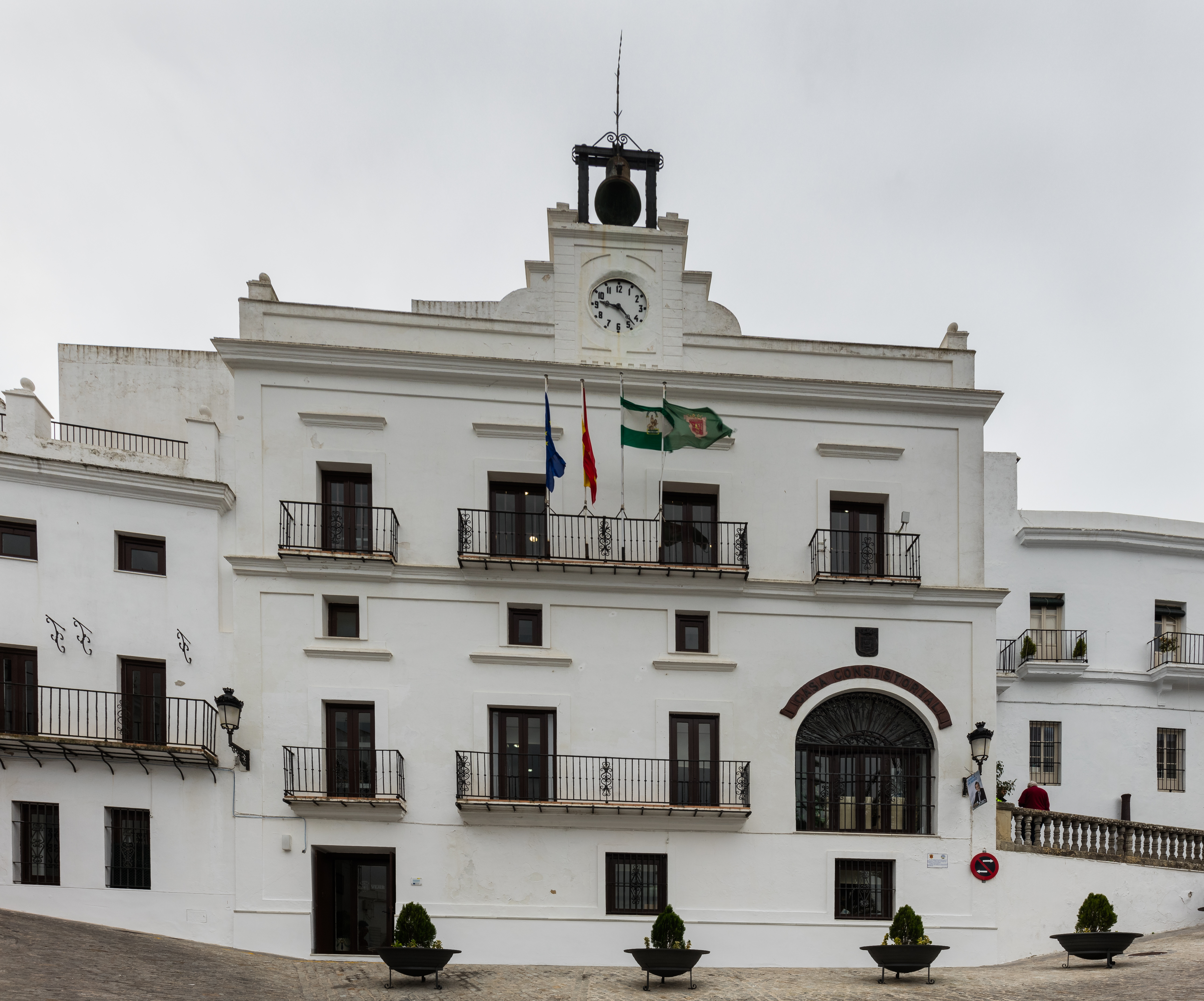 Town hall, Vejer de la Frontera, Cádiz, Spain